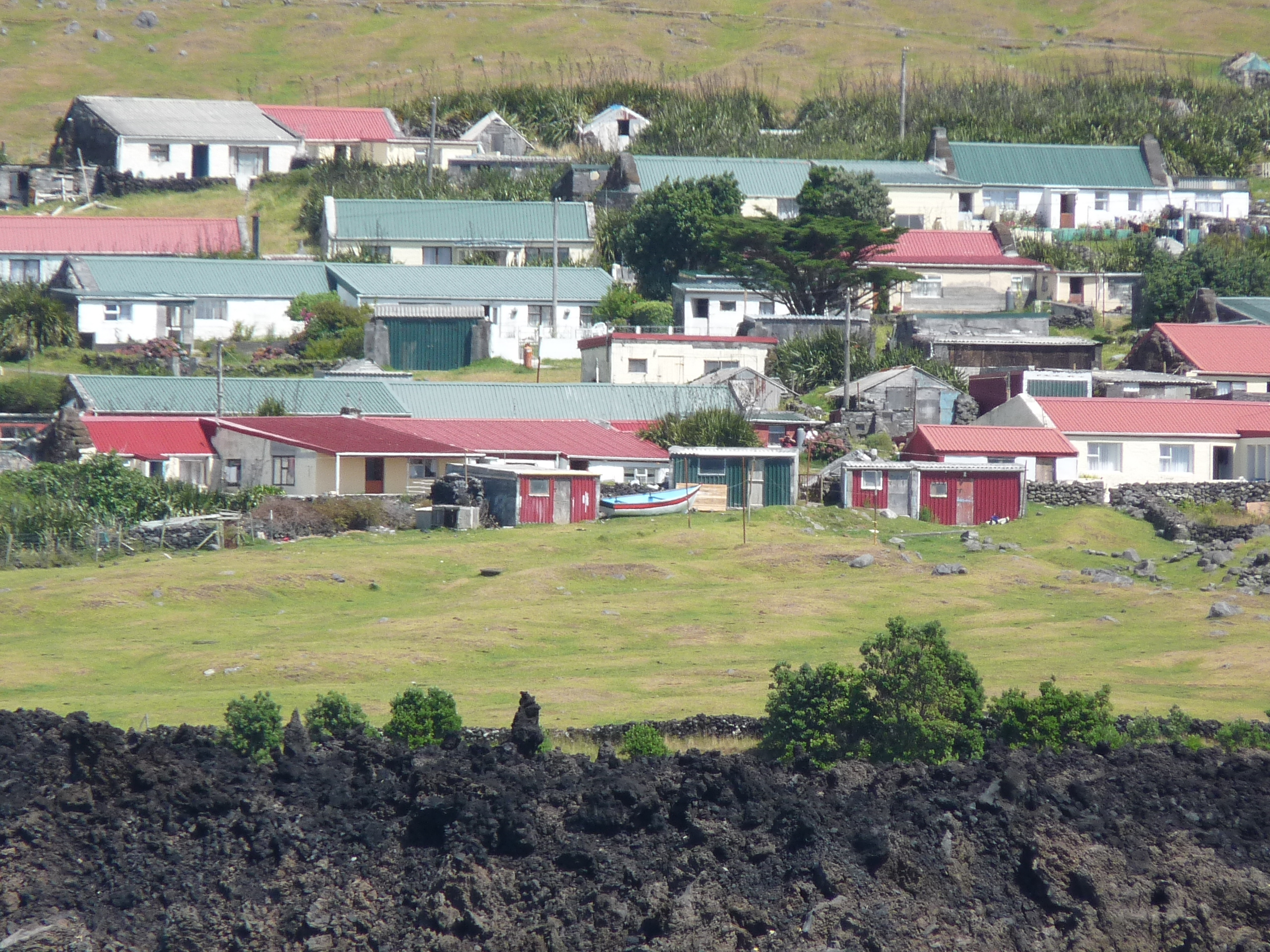 View of Edinburgh of the Seven Seas, Tristan da Cunha